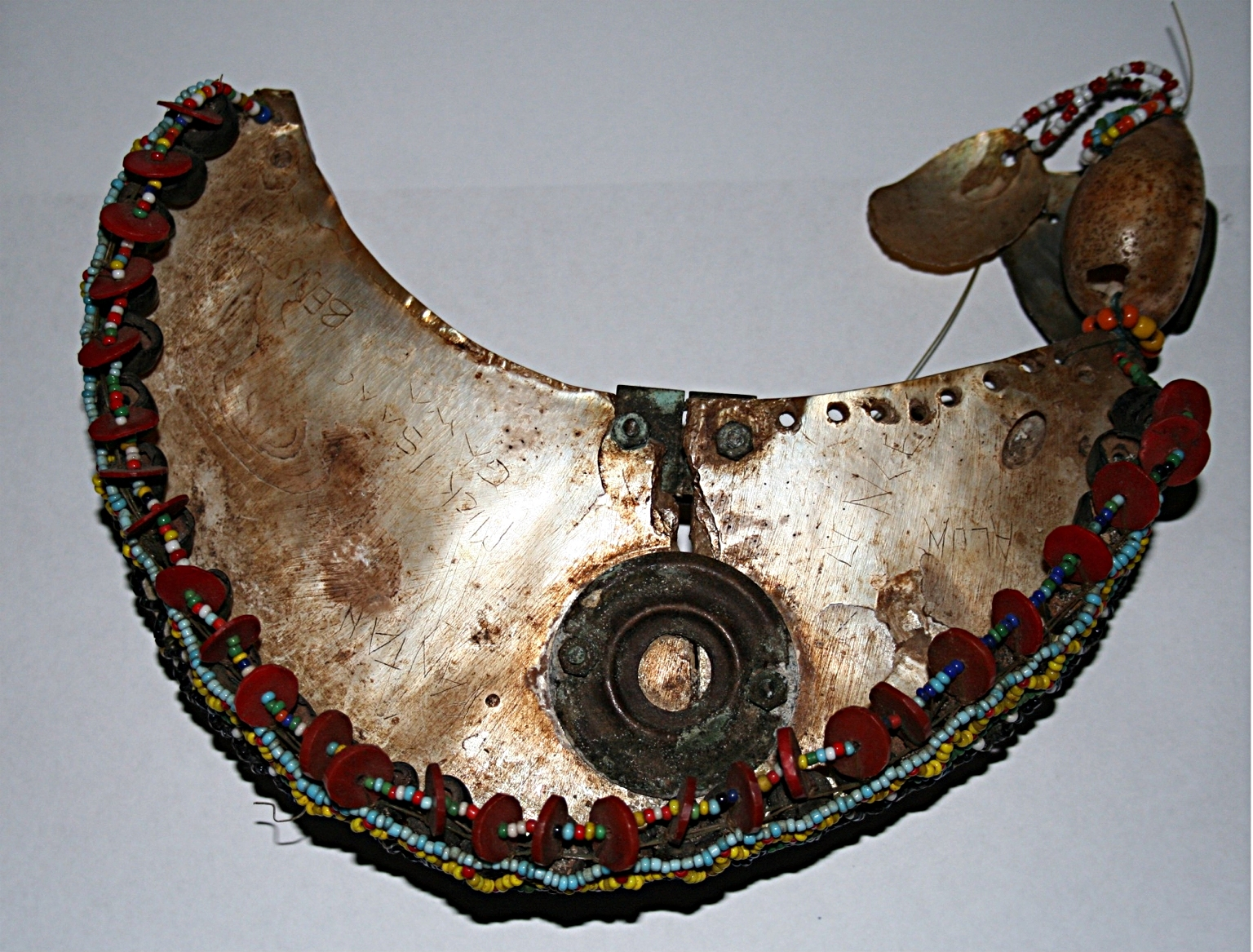 Kula arm bracelet. The names of the people who have owned the bracelet are written all over it. This Kula item is from Nabwageta Island, Papua New Guinea.